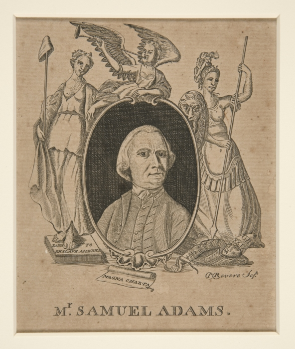 "Mr. Samuel Adams," by Paul Revere, 1774. 5 1/4 in. x 4 5/16 in. Yale University Art Gallery, Mabel Brady Garvan Collection. Courtesy of Yale University, New Haven, Conn.